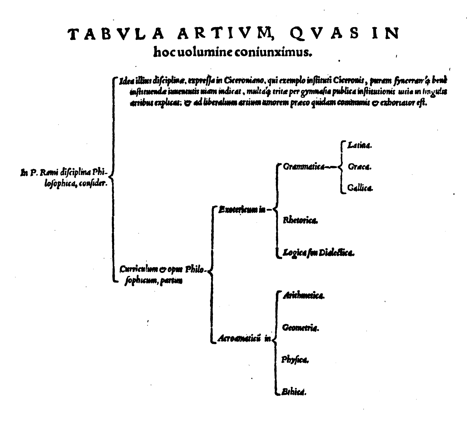 Page from the Professio Regia of Petrus Ramus (a professor at the University of Leiden), published posthumously in 1576, containing the first known use of the word "curriculum". The chart is titled "Tabula Artium quas in hoc uolumine coniunximus".